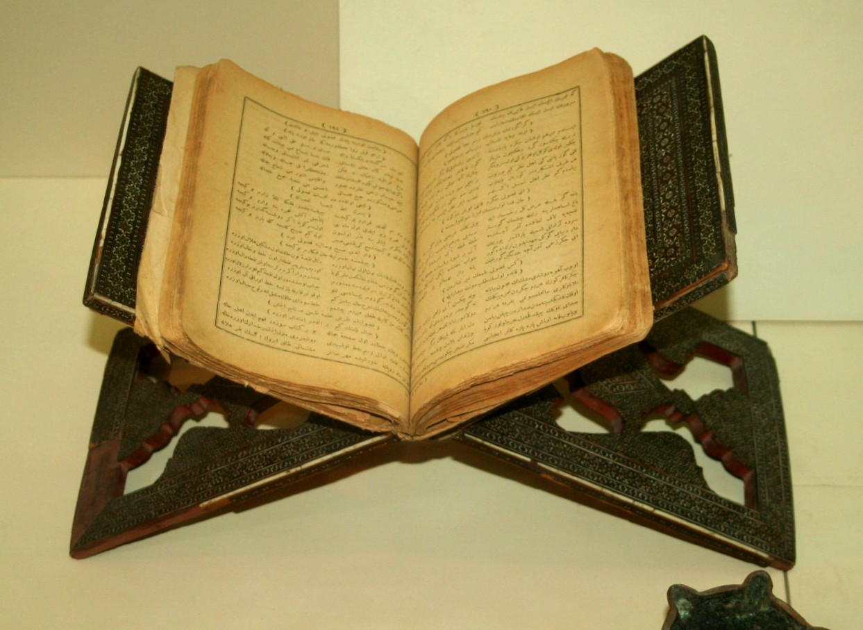 Divan of Fuzuli in Azerbaijani. Printed in 1915 (Museum of History of Azerbaijan).